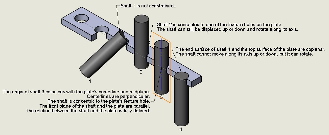 Isometric view. Computer-aided design. Constraints. Shaft concentric to hole.